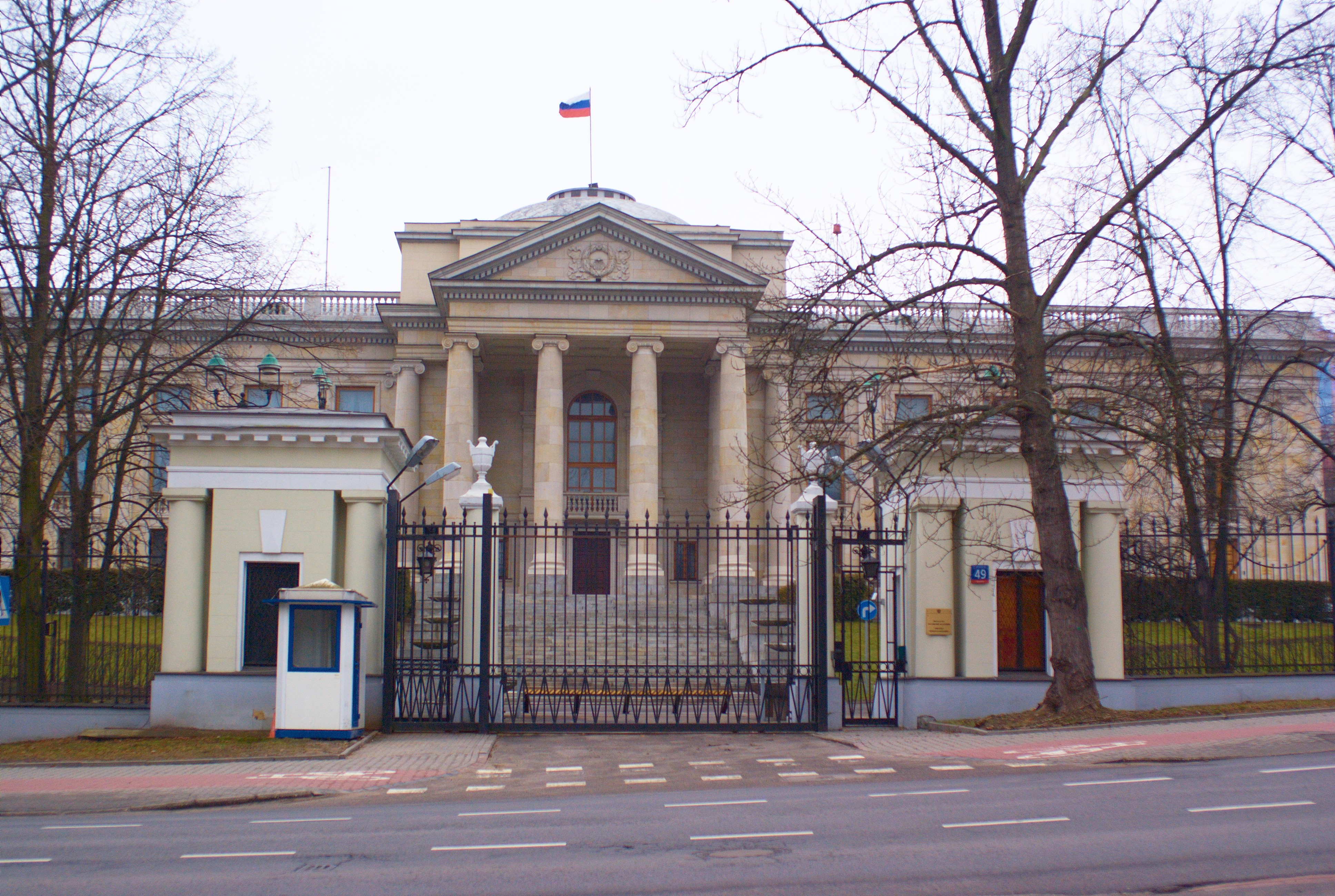 Russian Embassy in Warsaw, Poland Main building